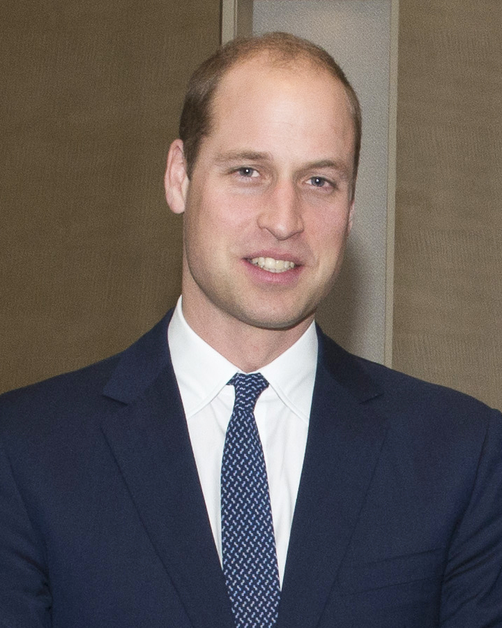 Prince William, Duke of Cambridge, at the Hanoi Conference on Illegal Wildlife Trade.